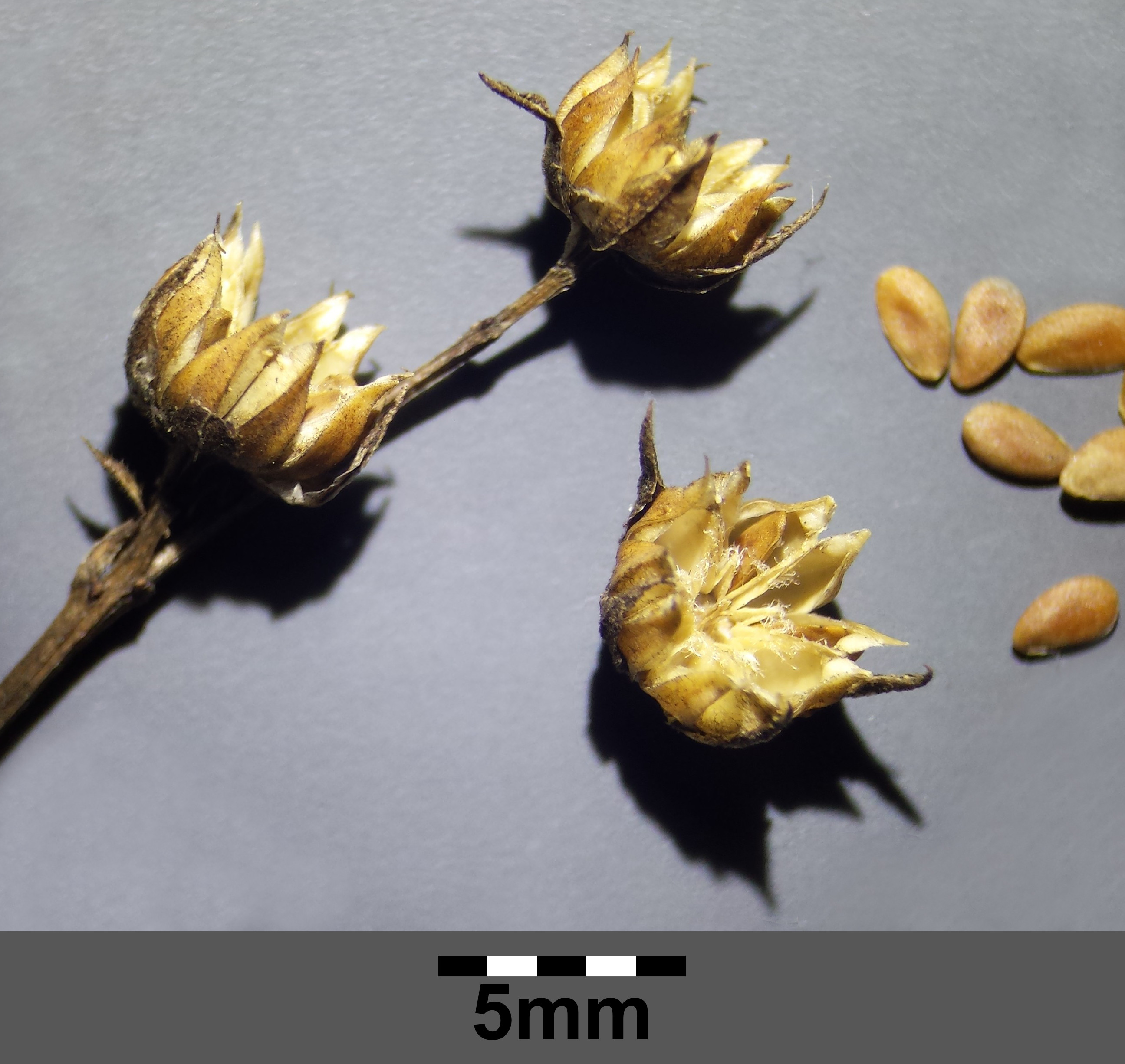 Fruit with seeds (leg. 2015-09-13) Taxonym: Linum flavum ss Fischer et al. EfÖLS 2008 ISBN 978-3-85474-187-9 Location: Steinbacher Heide, Leiser Berge, district Korneuburg, Lower Austria - ca. 450 m a.s.l. Habitat: poor grassland